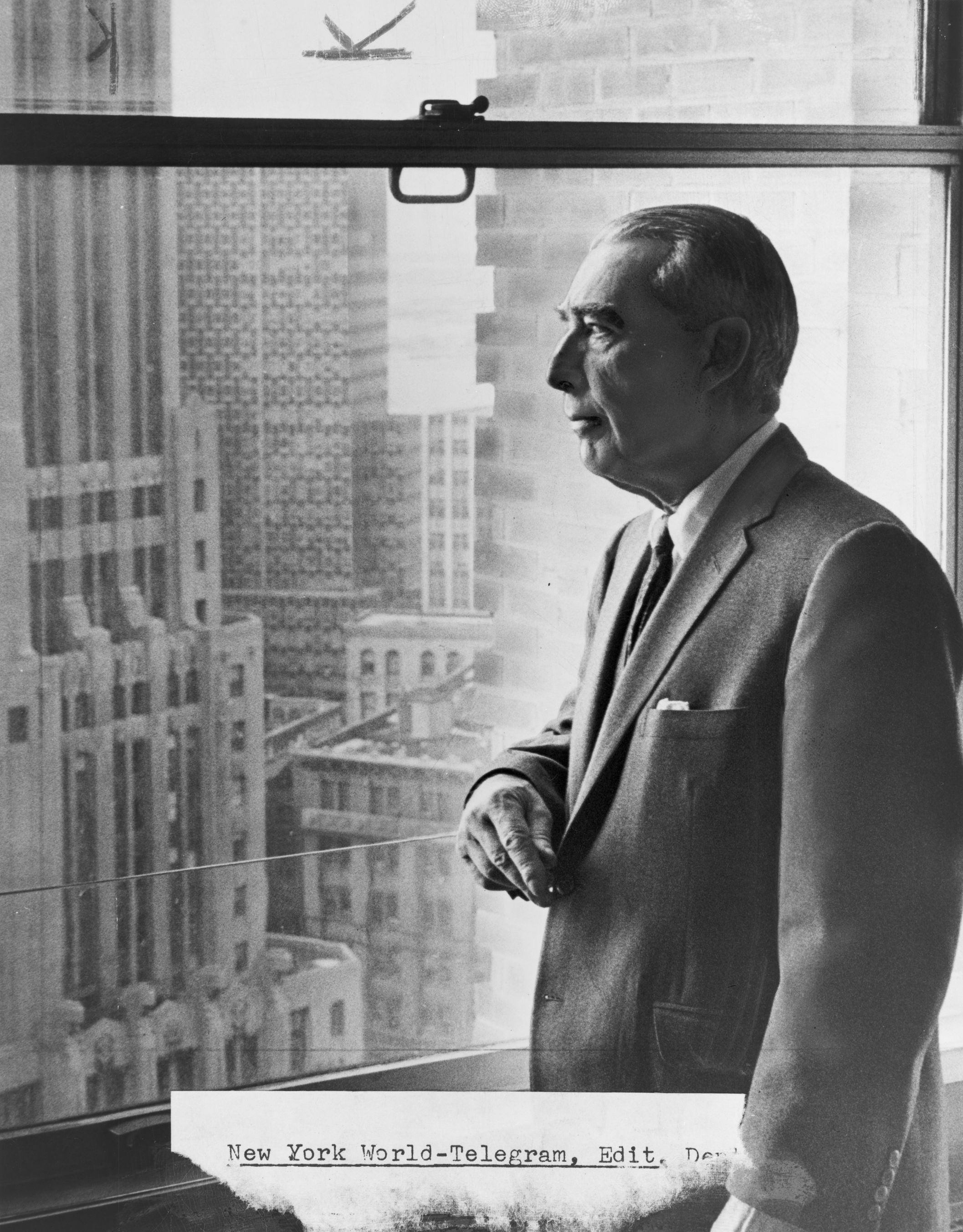 Adolf Augustus Berle: "As a record, I like to think, it isn't bad"